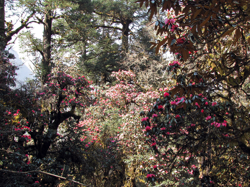 Rhododendron forest on Manaslu circuit, Nepal